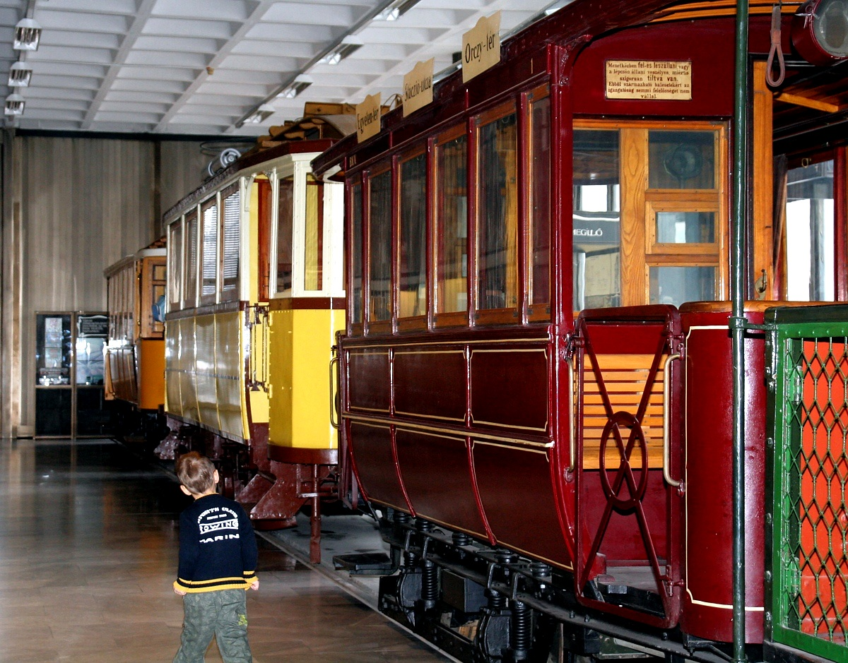 Museum of Transportation, Budapest